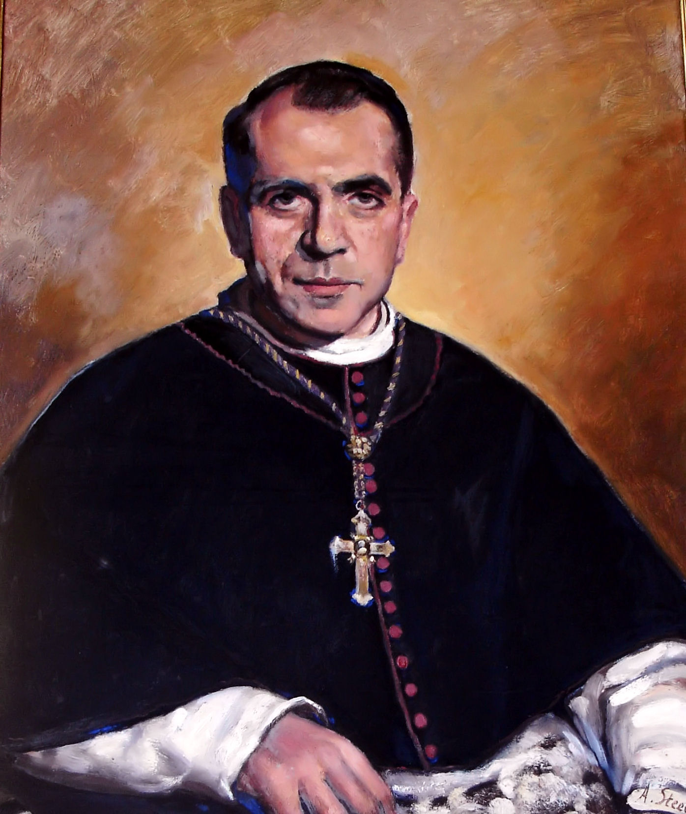 Kamiel Vinck, Canon, Superior and Deacon (died in March 2007) Verzameling Sint-Jozef-Klein-Seminarie (college)